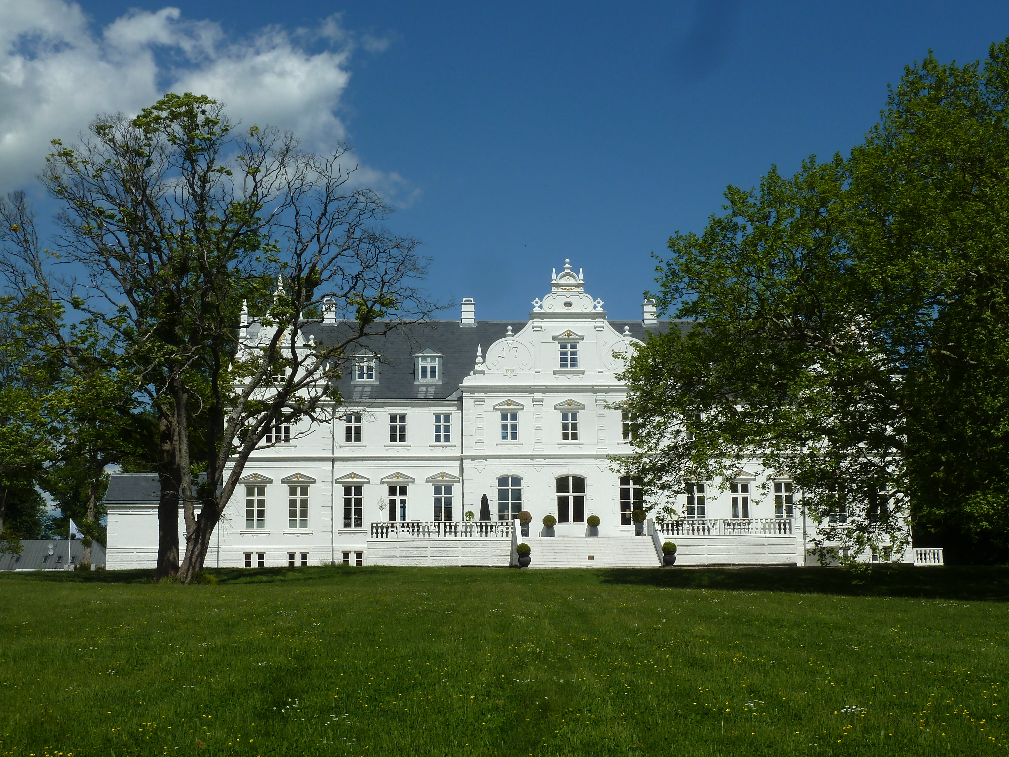 Kokkedal Slot in HHørsholm, Denmark as seen from the prk